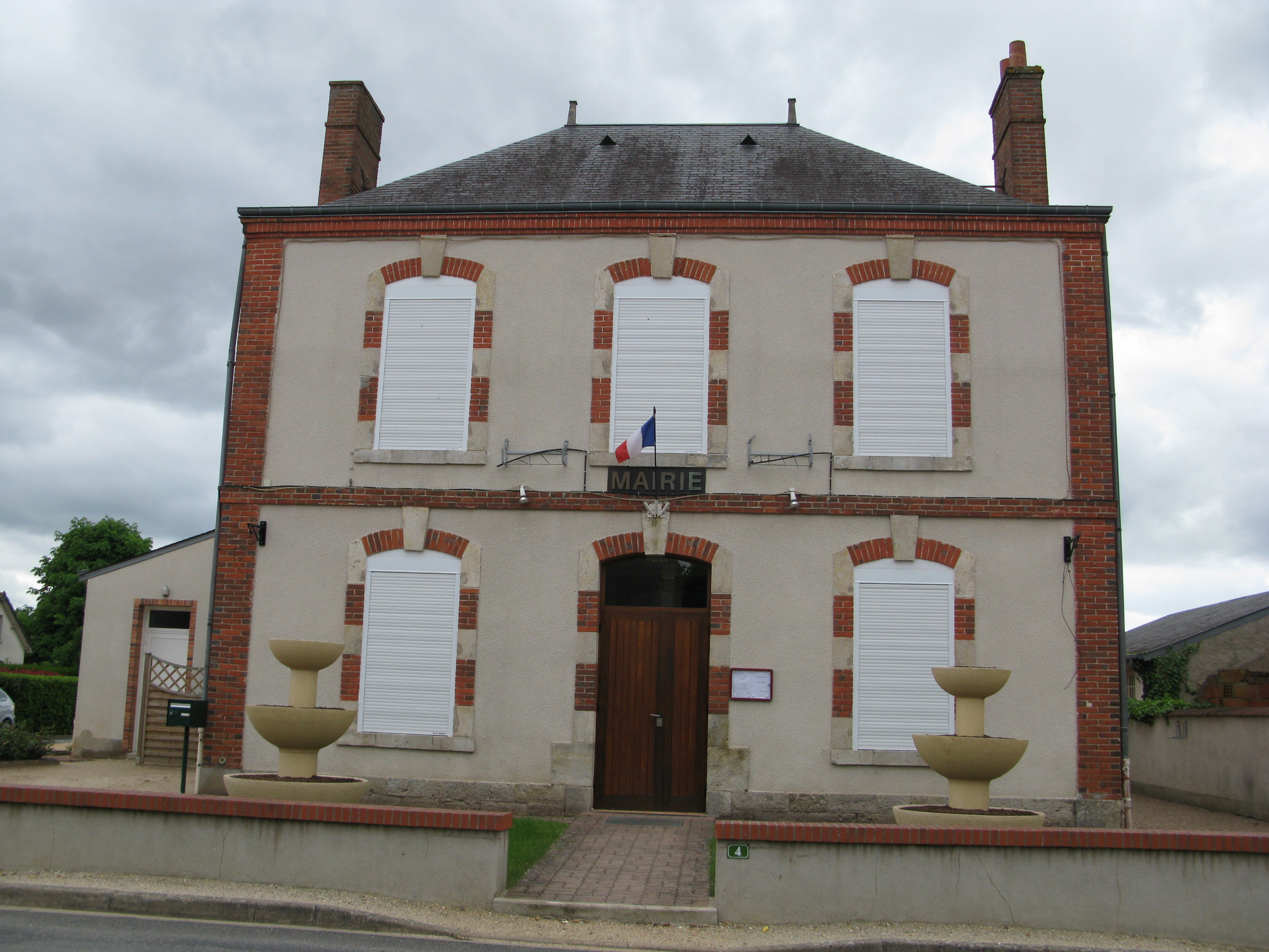 OpenStreetMap(Info)